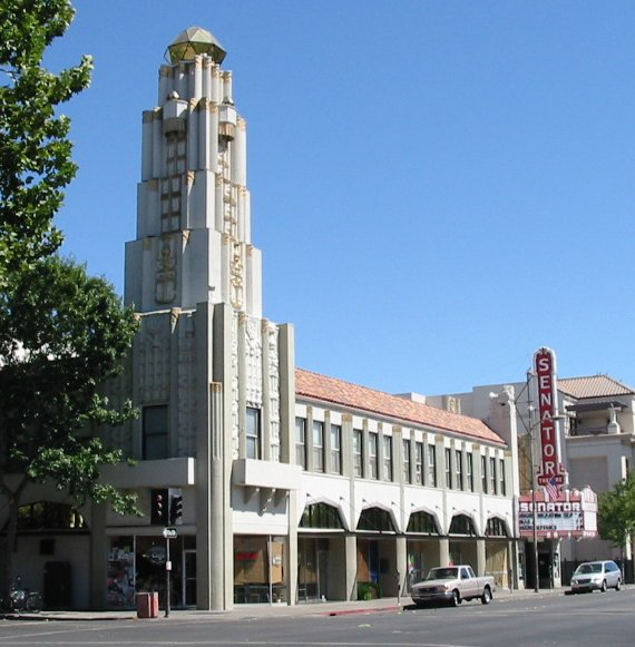 Photograph of the Senator Theatre in Chico, California.